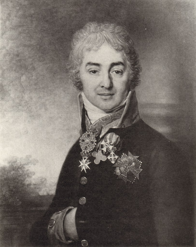 Kushnikov Sergey Sergeevich